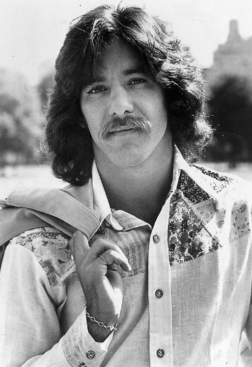 Publicity photo of journalist Geraldo Rivera for his news magazine Good Night America.